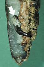 Eggs of date stone beetle Coccotrypes dactyliperda in a damaged date stone (see arrow).